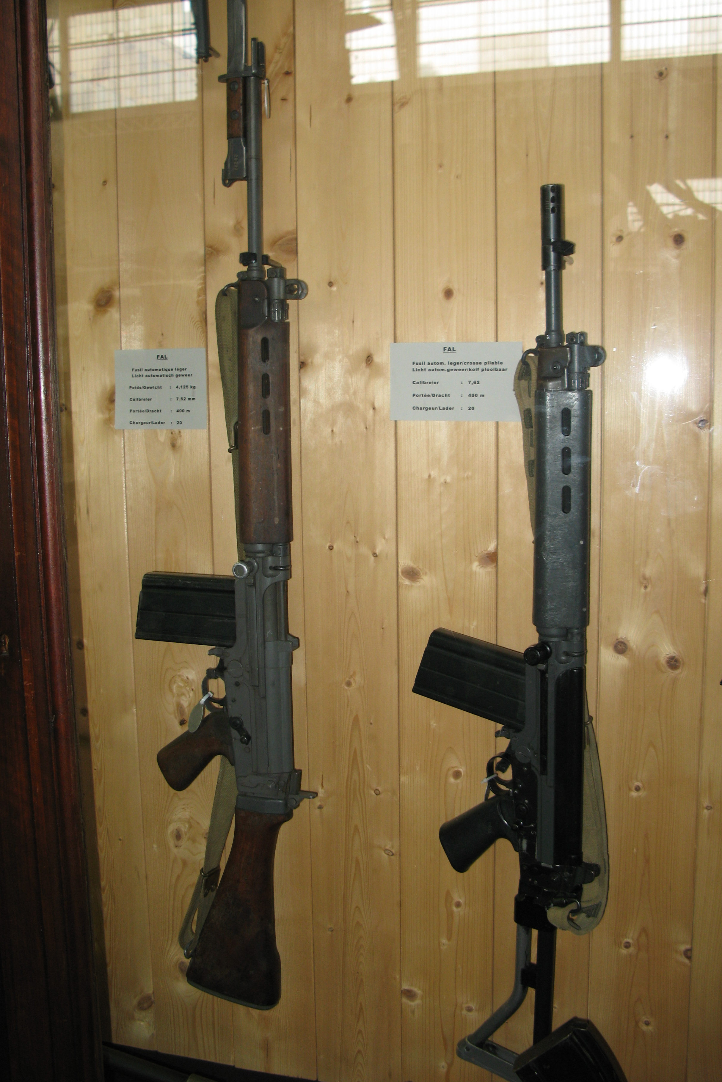 FN FAL Left: "Fusil automatique leger" (Lightweight automatic rifle) Right: "Fusil autom leger/crosse pliable" (Lightweight auto rifle/folding stock)